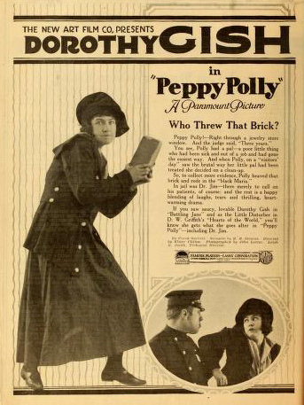 Advertisement in Moving Picture World, April 1919 for the American comedy film Peppy Polly (1919).